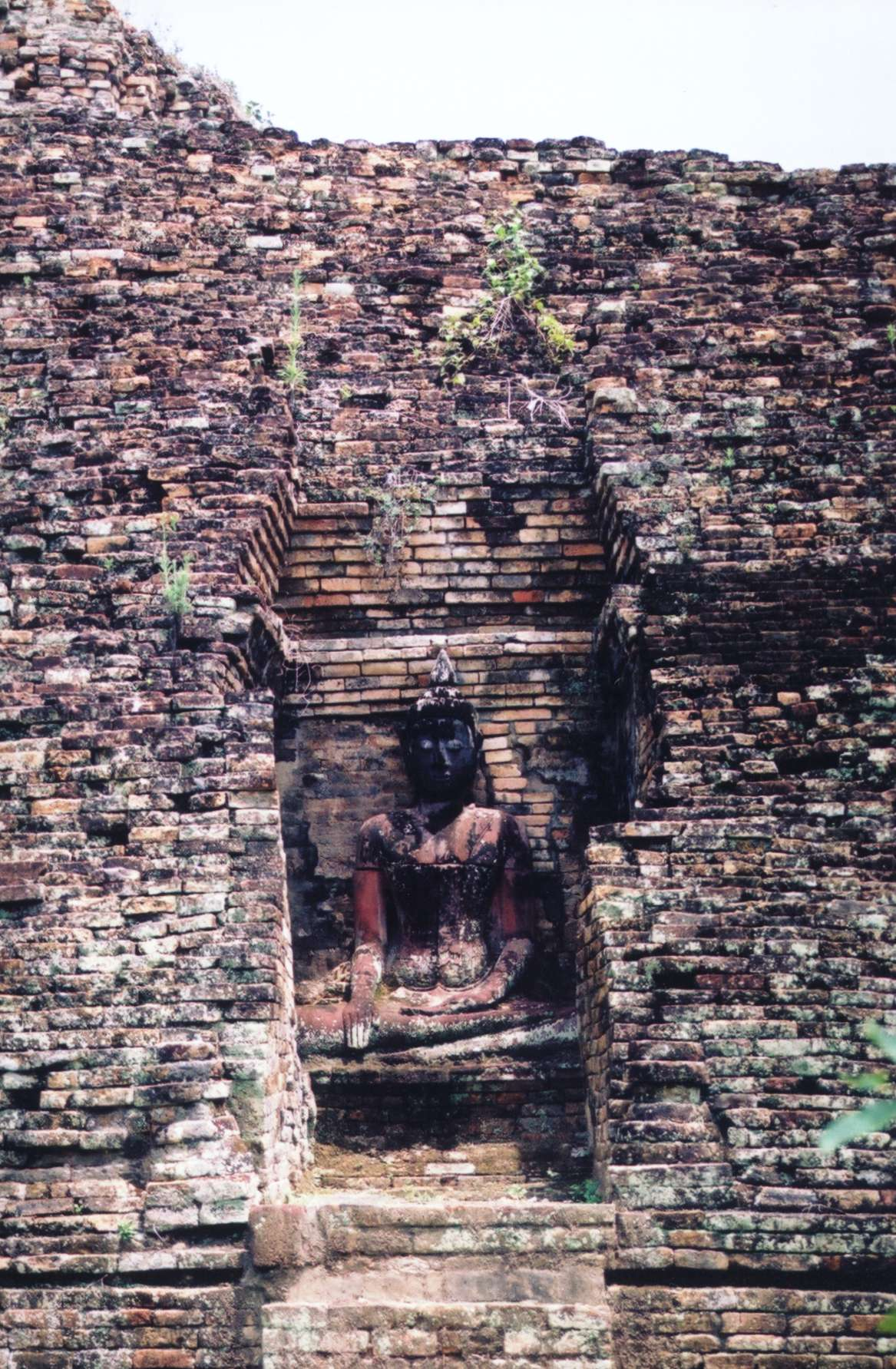 Buddha statue in the ruins of the chedi of Srivijavan style Wat Kaew, Chaiya, Surat Thani province, Thailand. Photo taken by User:Ahoerstemeier on on June 28, 2003.